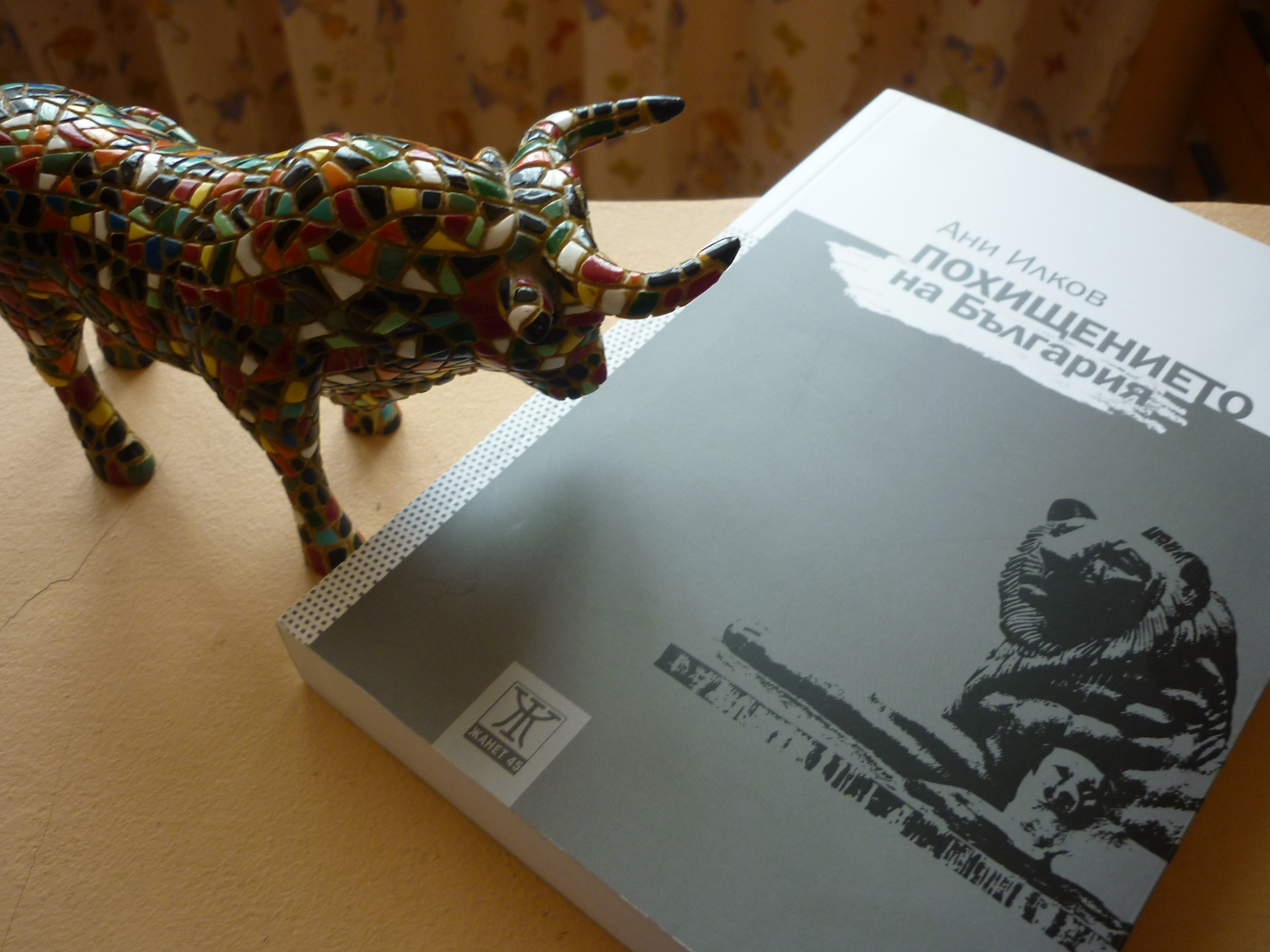 „The Abduction of Bulgaria. Political pamphlets (2002 - 2009)“, cover of the first Bulgarian edition, 2013